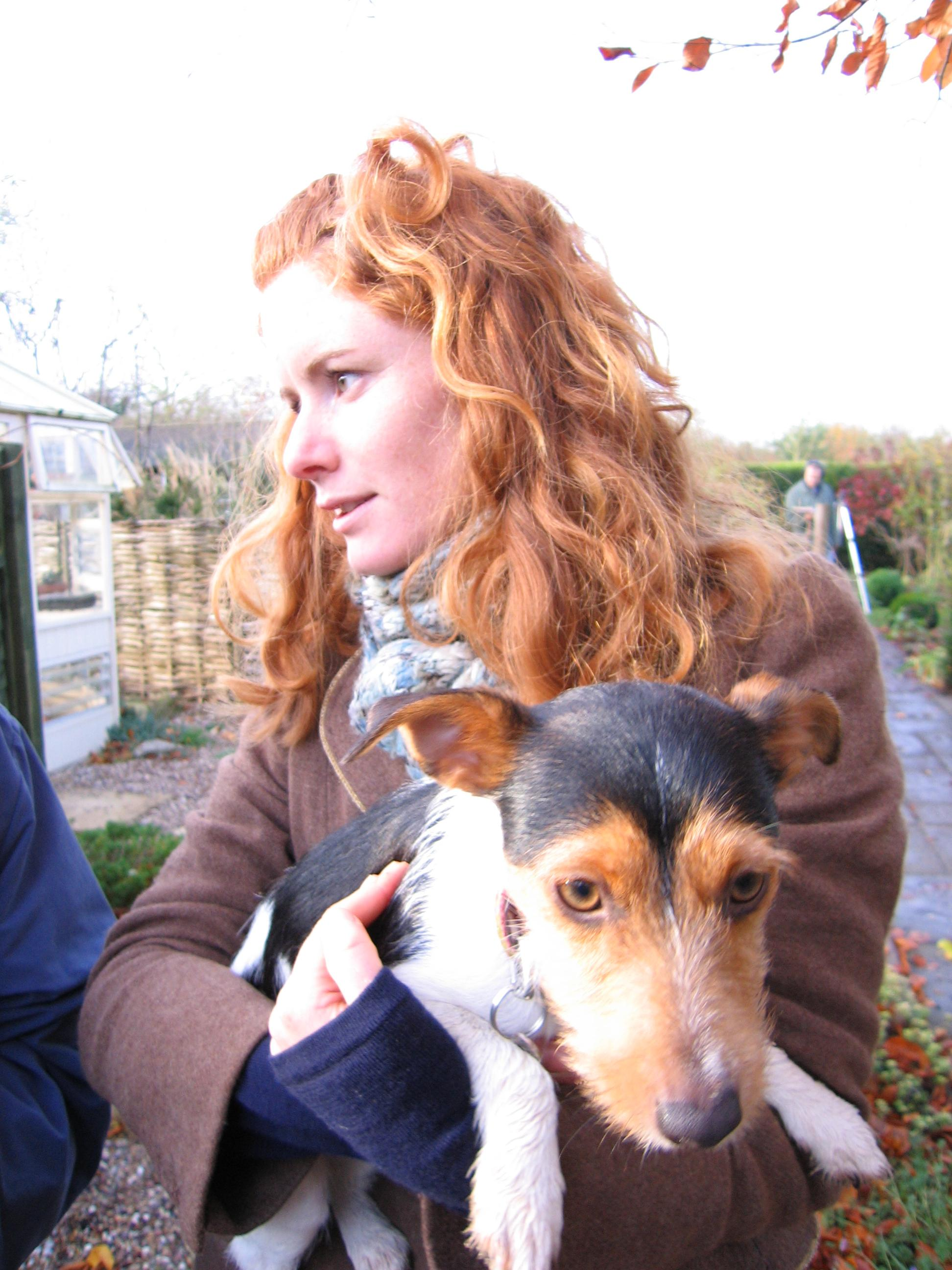 Gardeners' World gardener and presenter of The Edible Garden (2010) Alys Fowler in 2007.